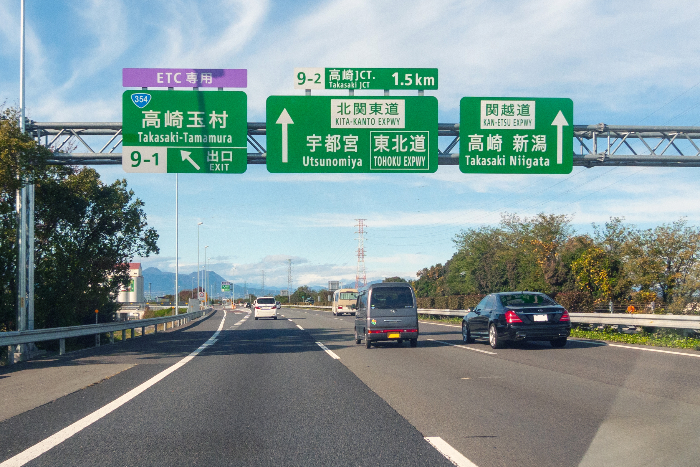 Takasaki-Tamamura Smart Interchange on the Kan-etsu Expressway in Takasaki City, Gunma Prefecture, Japan